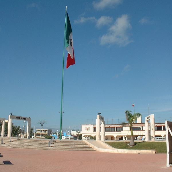 Bandera monumental in front of the Town Hall, Playa del Carmen, Quintana Roo, Mexico.